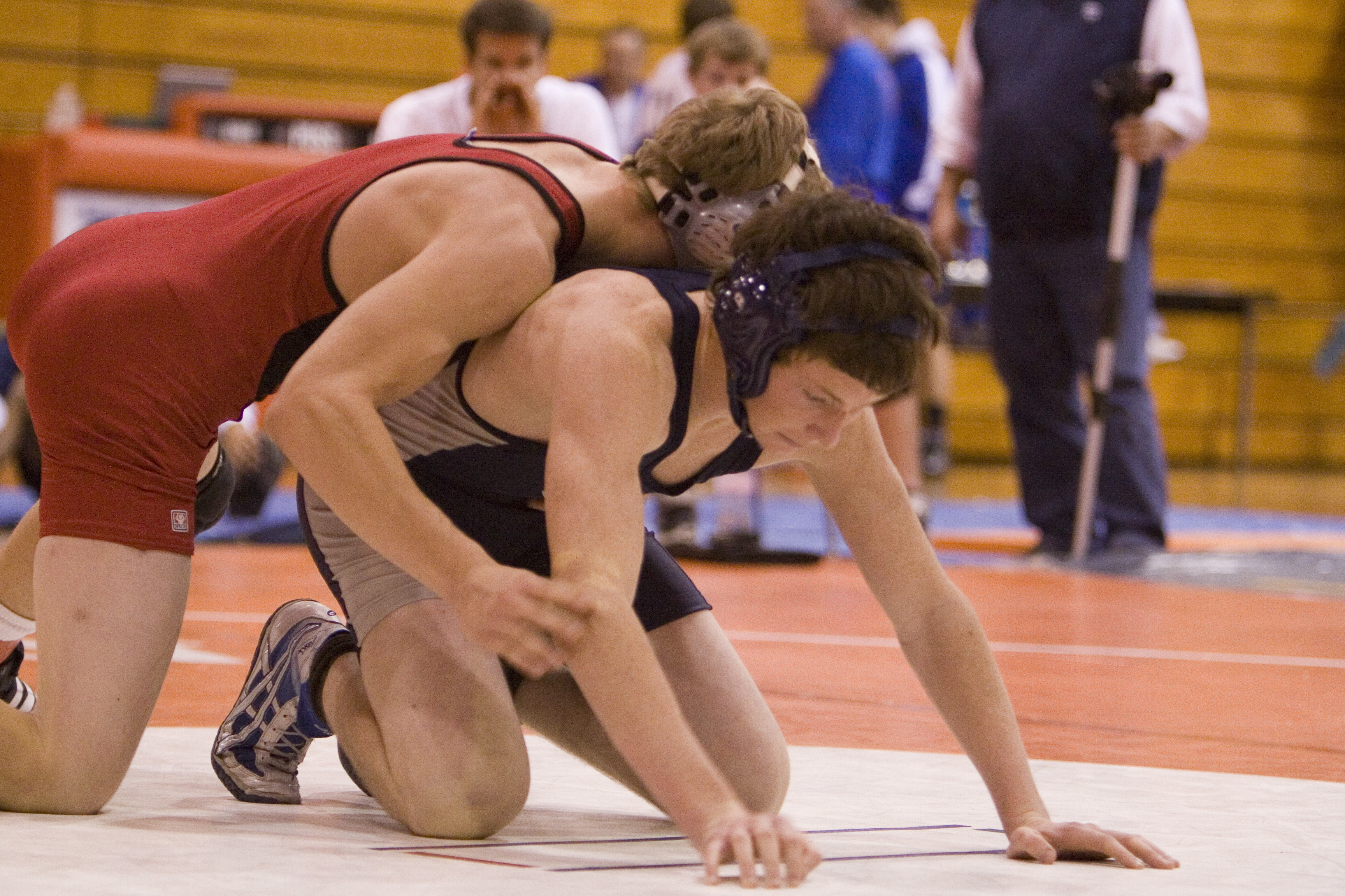 Two high school students wrestling (collegiate, scholastic, or folkstyle) in the United States. Originally uploaded by Wikiman86 on the English Wikipedia project at